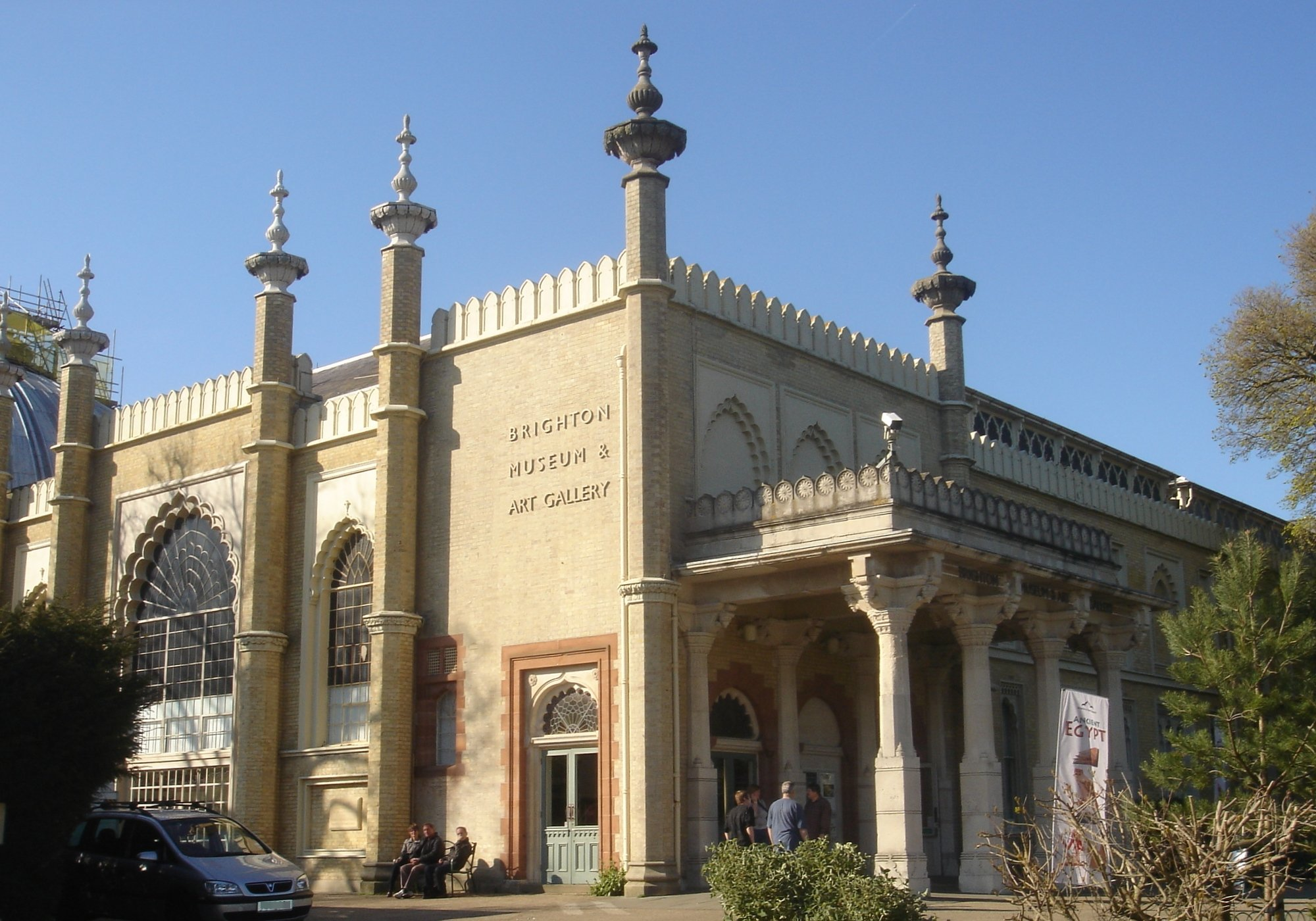 Brighton Museum and Art Gallery, Church Street, Brighton, City of Brighton and Hove, England. Built in 1804 as part of the Royal Pavilion estate and extended and altered subsequently. Listed at Grade II* by English Heritage (IoE Code 480508)